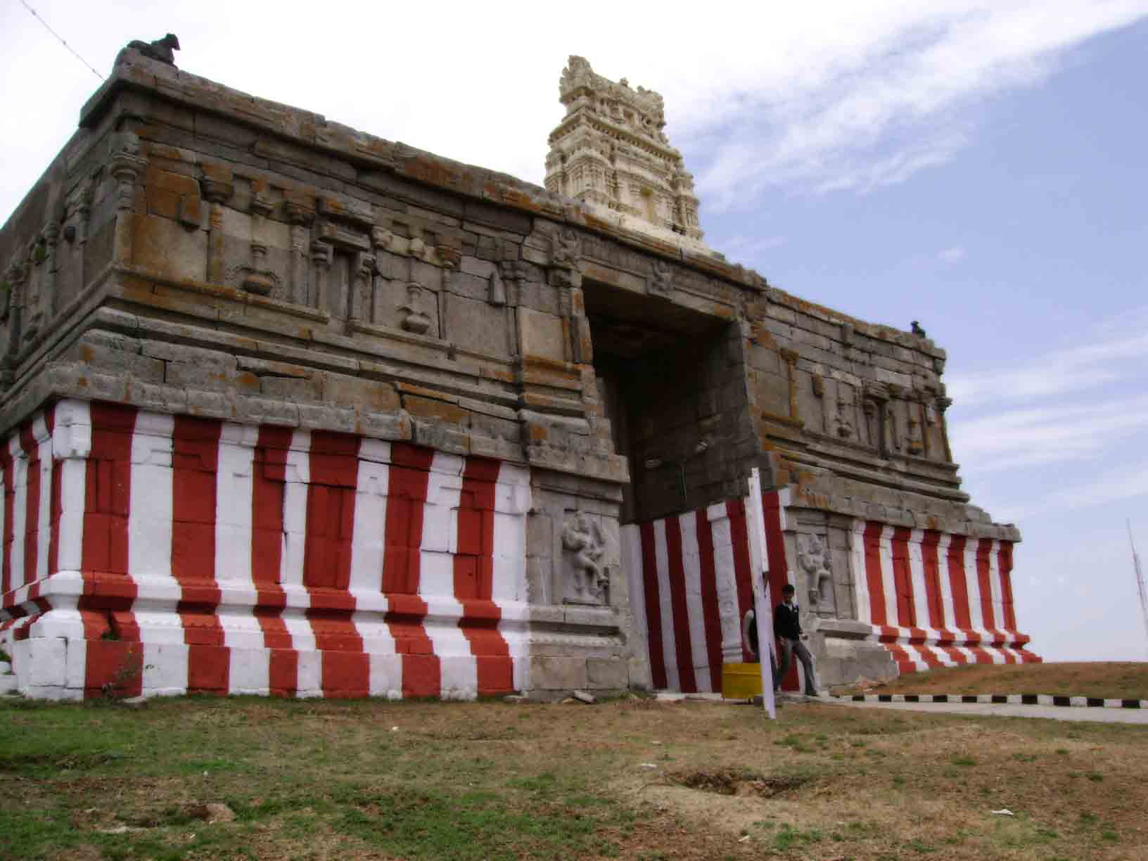 Lord shiva temple at Hosur, Tamil Nadu, India